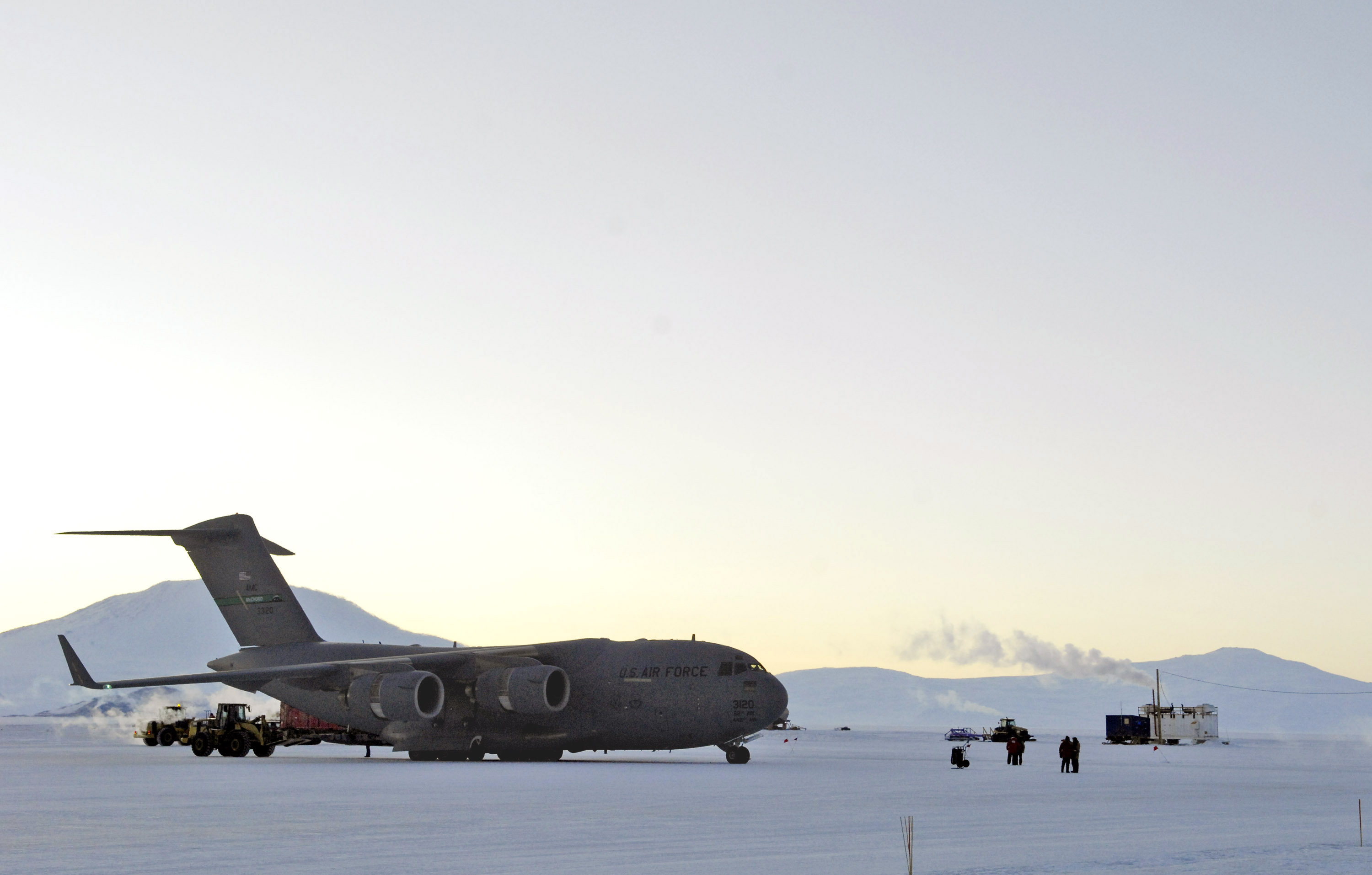 A C-17 Globemaster III is downloaded during the winter fly-in for Operation Deep Freeze Aug. 20 at Pegasus Runway in Antarctica. A C-17 and 31 Airmen from McChord Air Force Base, Wash., began the annual winter fly-in augmentation of scientist, support personnel, food and equipment for the U.S. Antarctic Program at McMurdo Station. WinFly is the opening of the first flights to McMurdo Station, which closed for the austral winter in February. (U.S. Air Force photo/Tech. Sgt. Shane A. Cuomo)